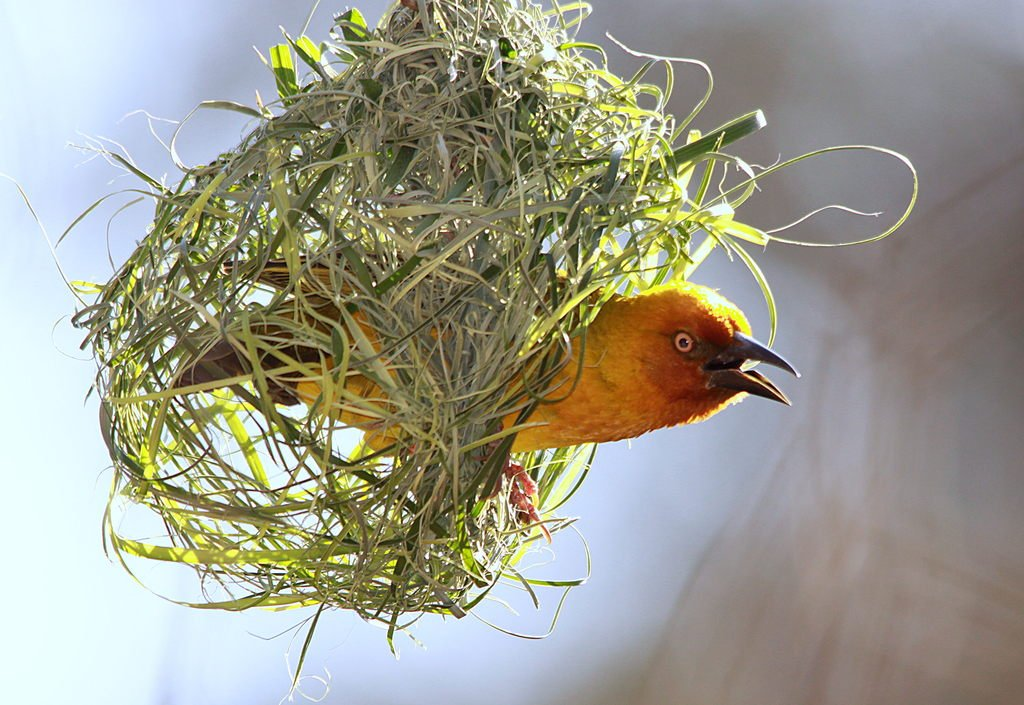 Cape Weaver, Ploceus capensis at Walter Sisulu National Botanical Garden